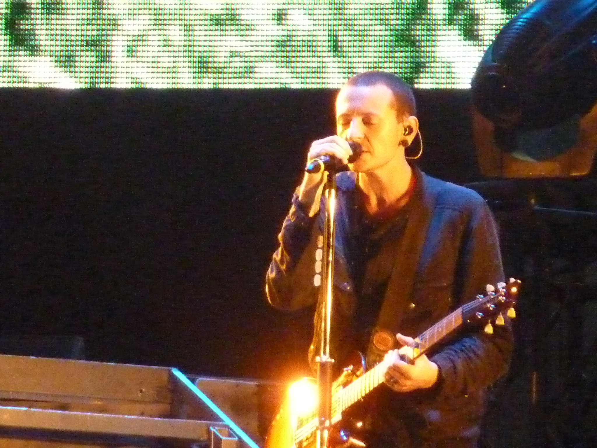 Chester Bennington in Maquinaria Festival 2010